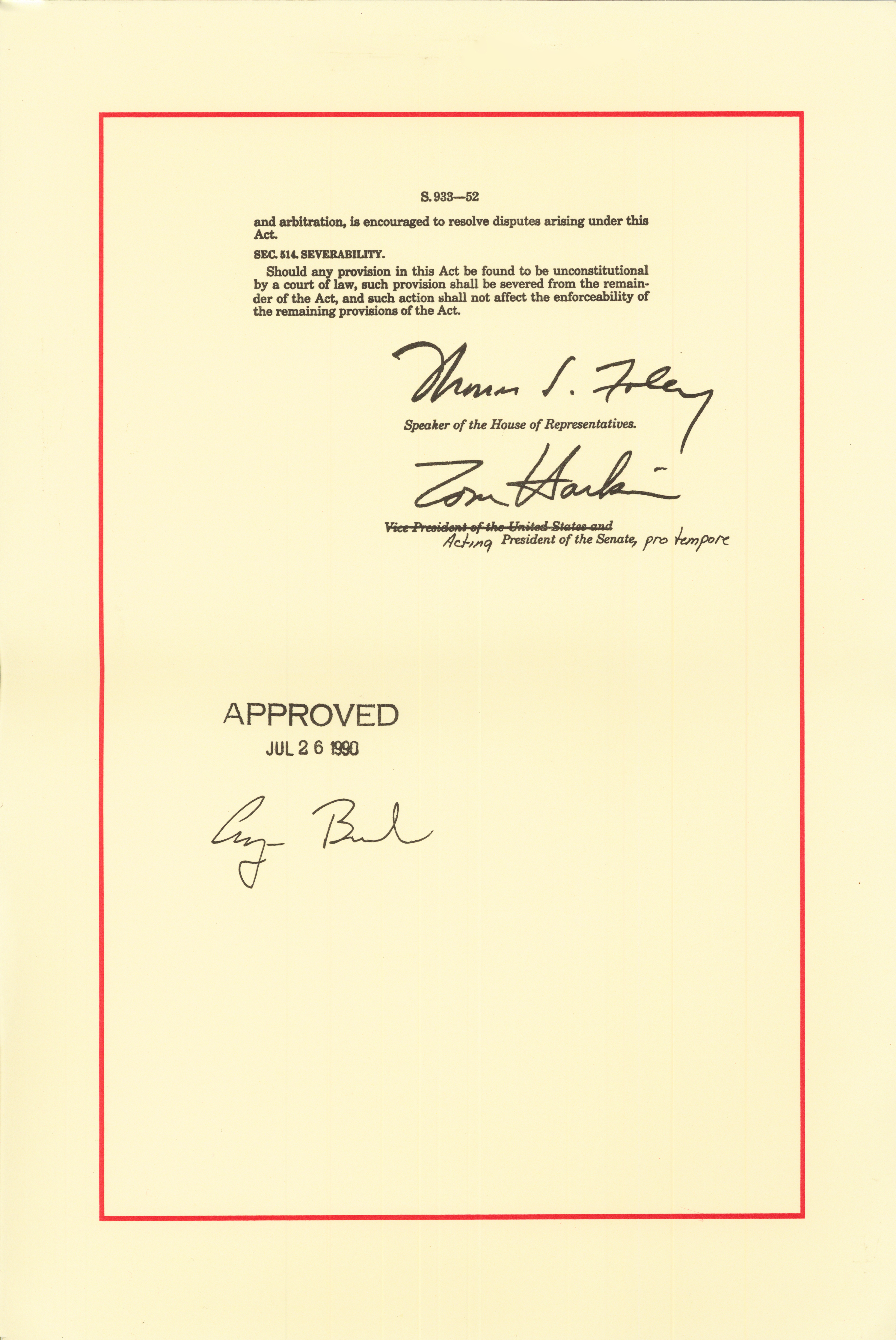 Americans with Disabilities Act of 1990, July 26, 1990, signature page. (National Archives Identifier 6037488)